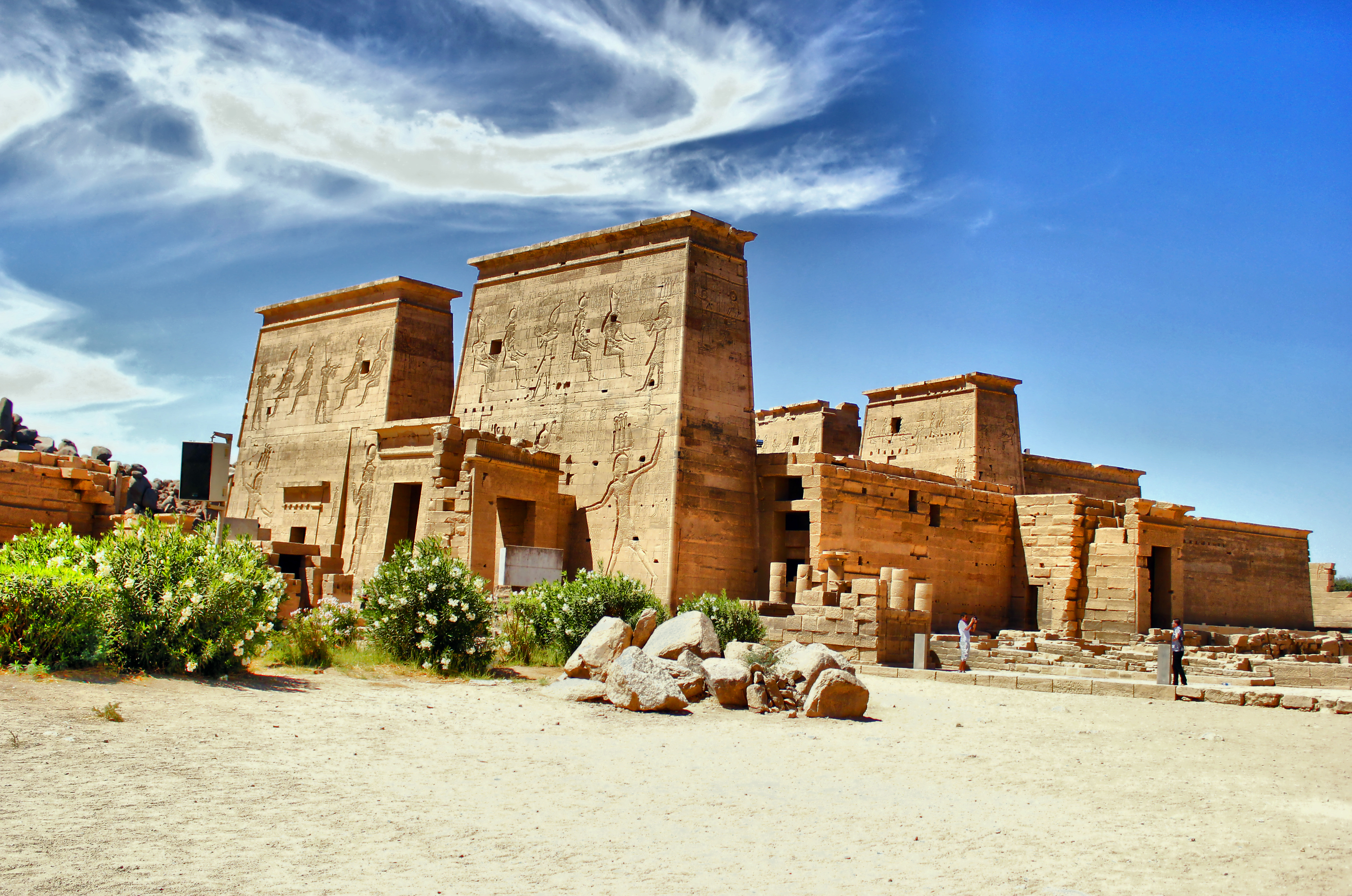 Temple of Isis in Philae